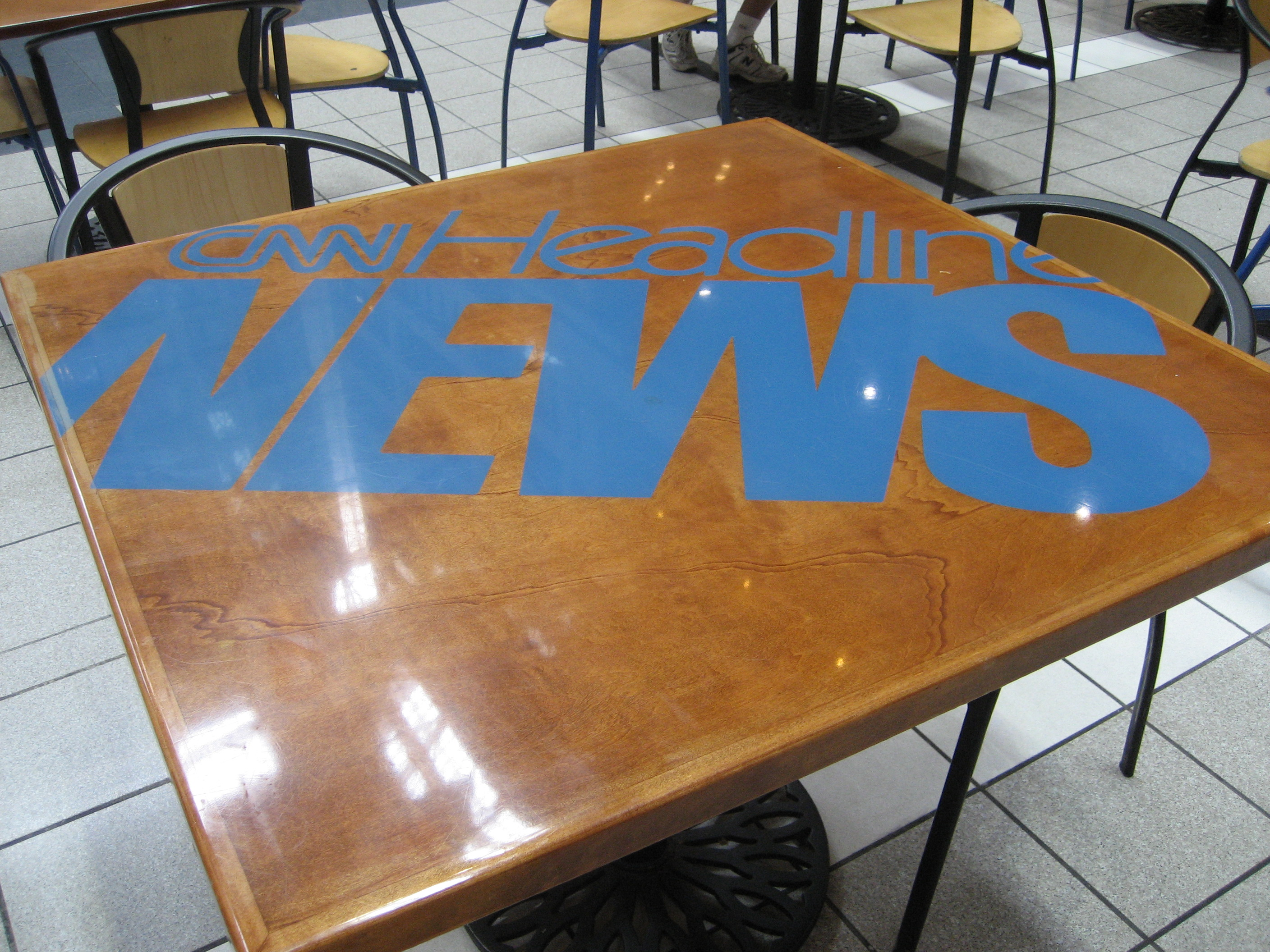 CNN Headline News logo on a table in the CNN Center. Photo: Chris Green